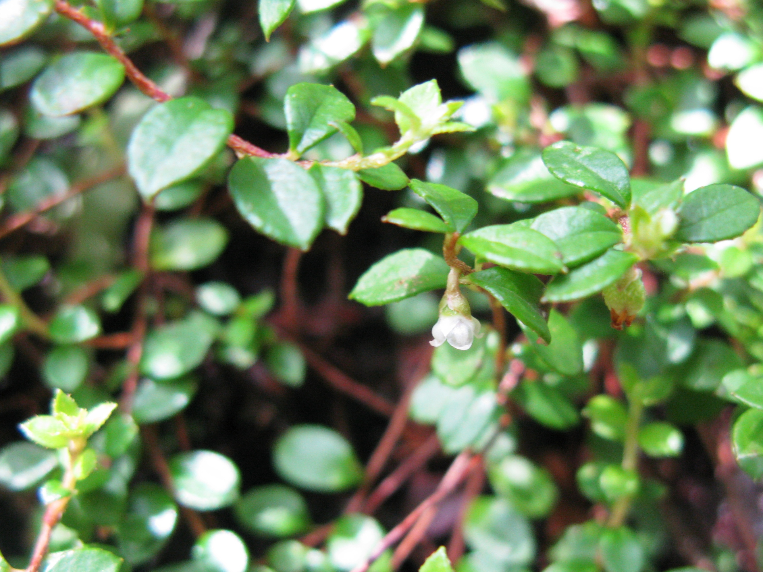 Gaultheria japonica,Mt. Higashi-Azuma, Fukushima pref., Japan